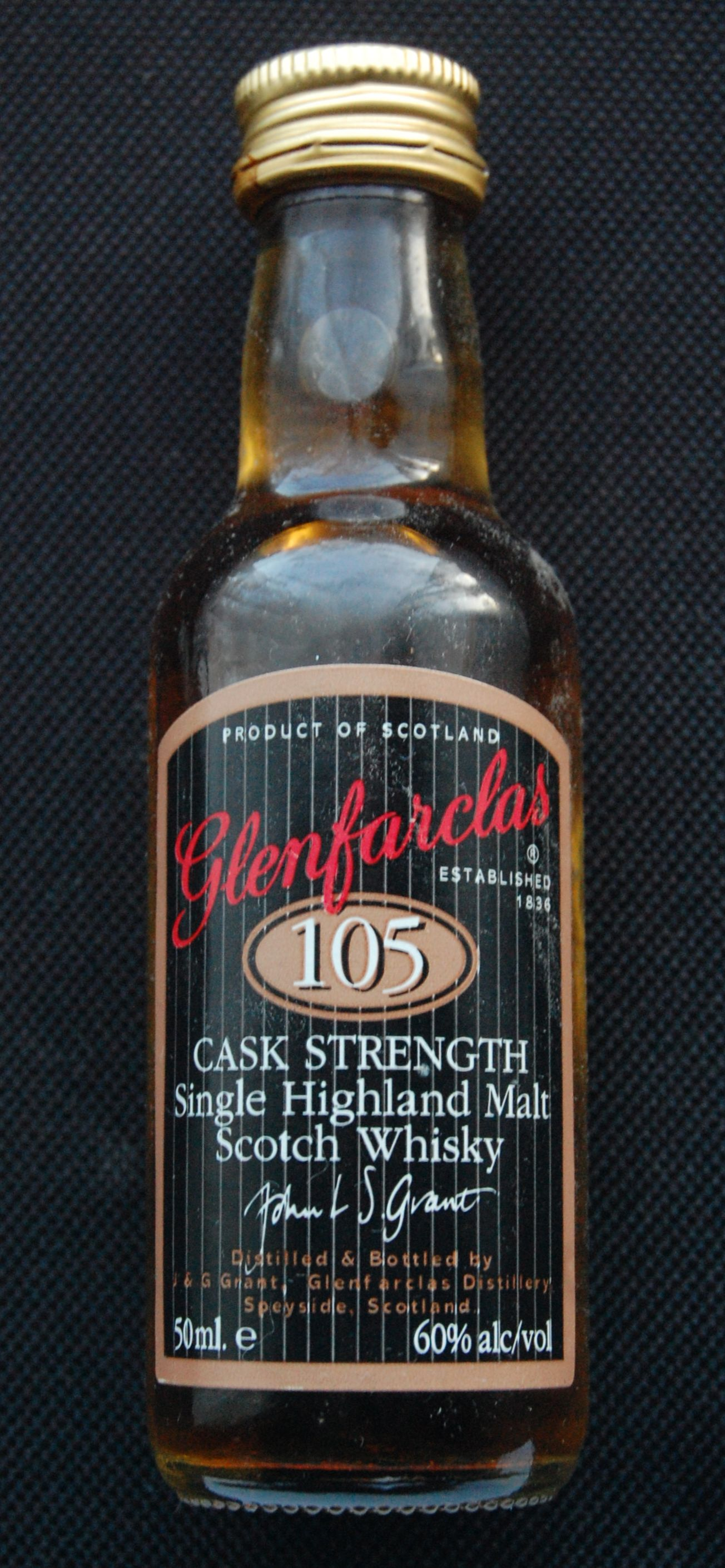 A miniature (50ml) of Glenfarclas 105 cask-strength whisky, (60%ABV). The bottle is 115m tall and 33mm in diameter. The label bears the facsimile signature of company chairman John L.S. Grant.